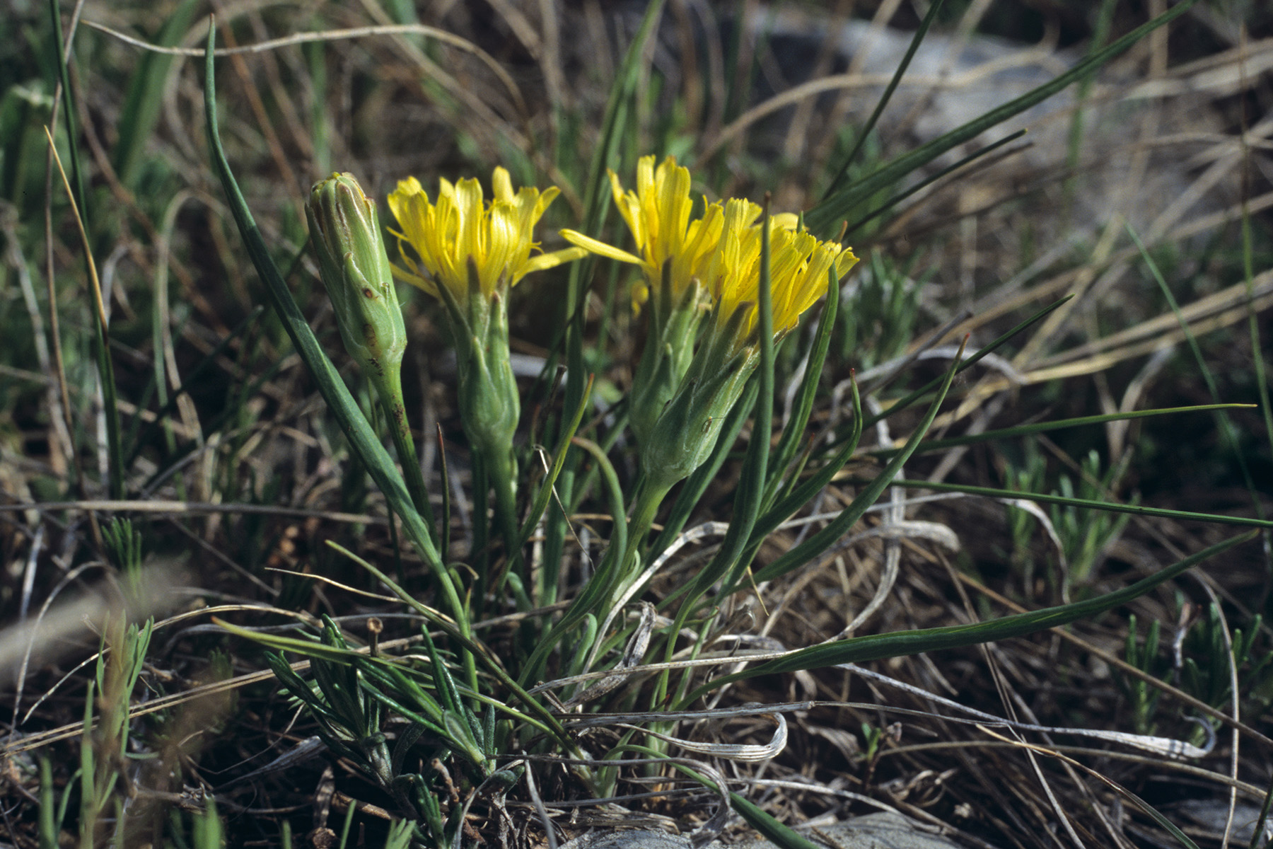 Scorzonera austriaca Postojna, Slovenia